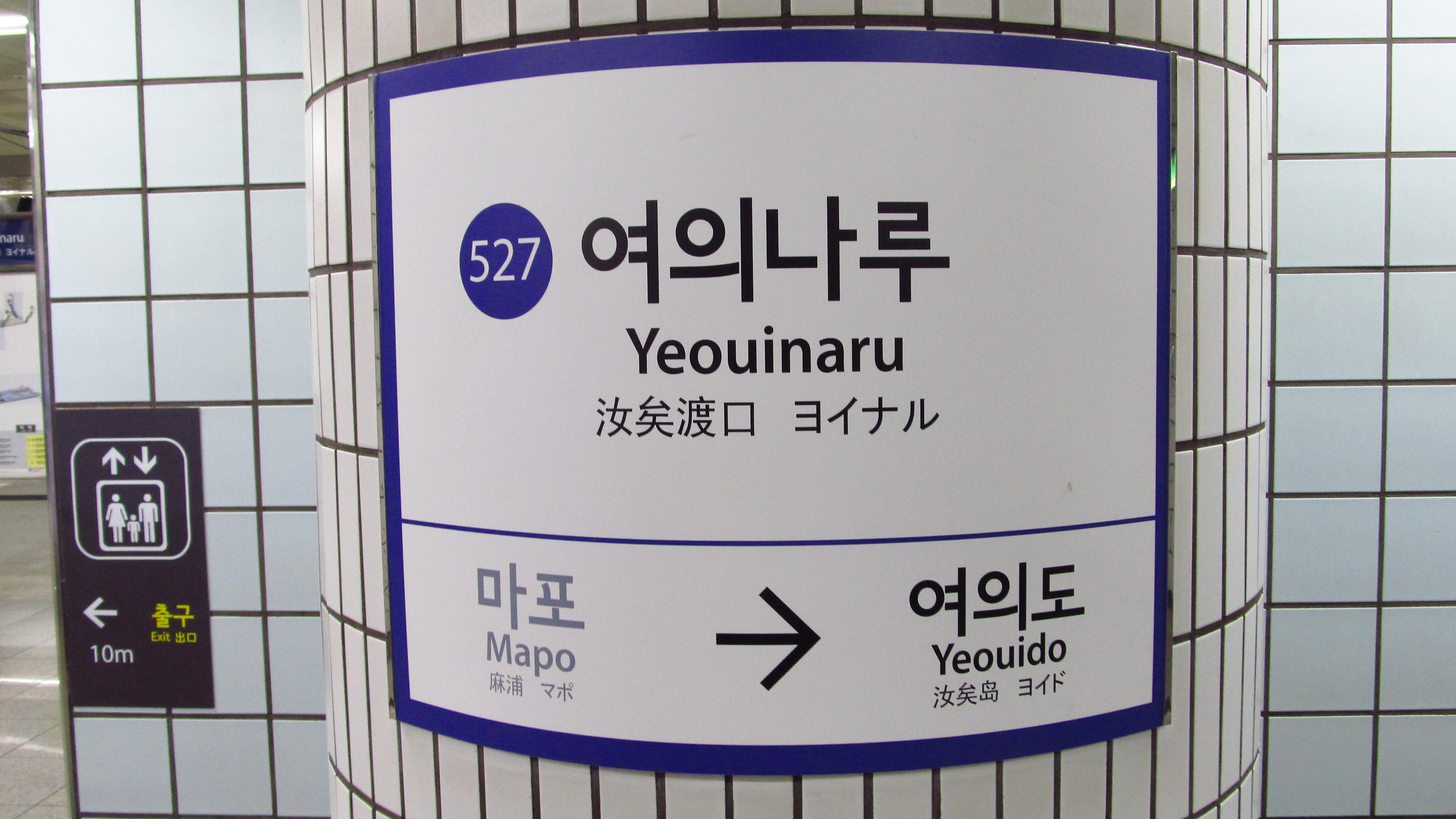 A sign of Yeouinaru Station on Seoul Subway Line 5